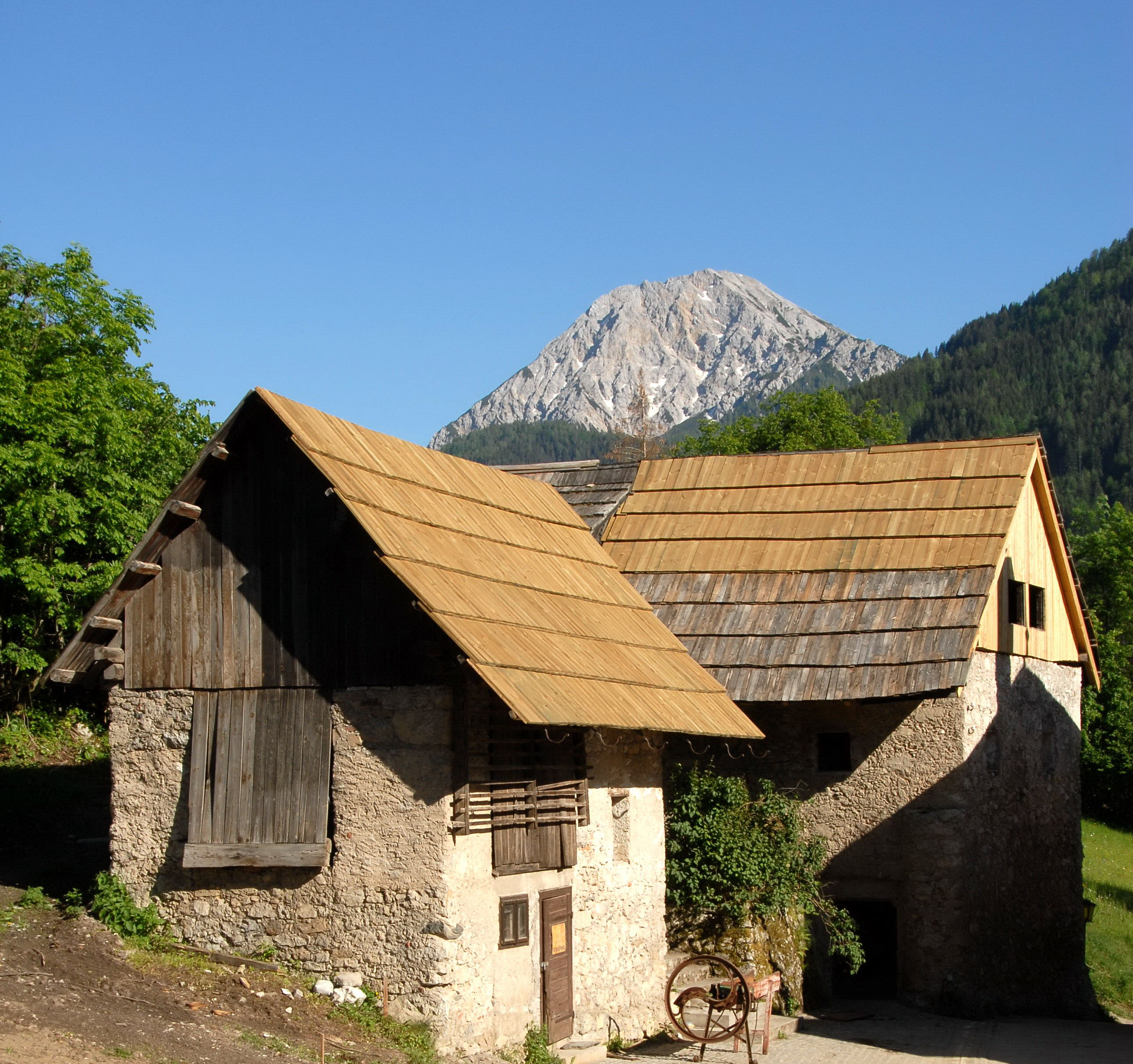 Historical country houses with Mount Mittagskogel, situated in the community Finkenstein am Faaker See, Carinthia / Austria / EU.